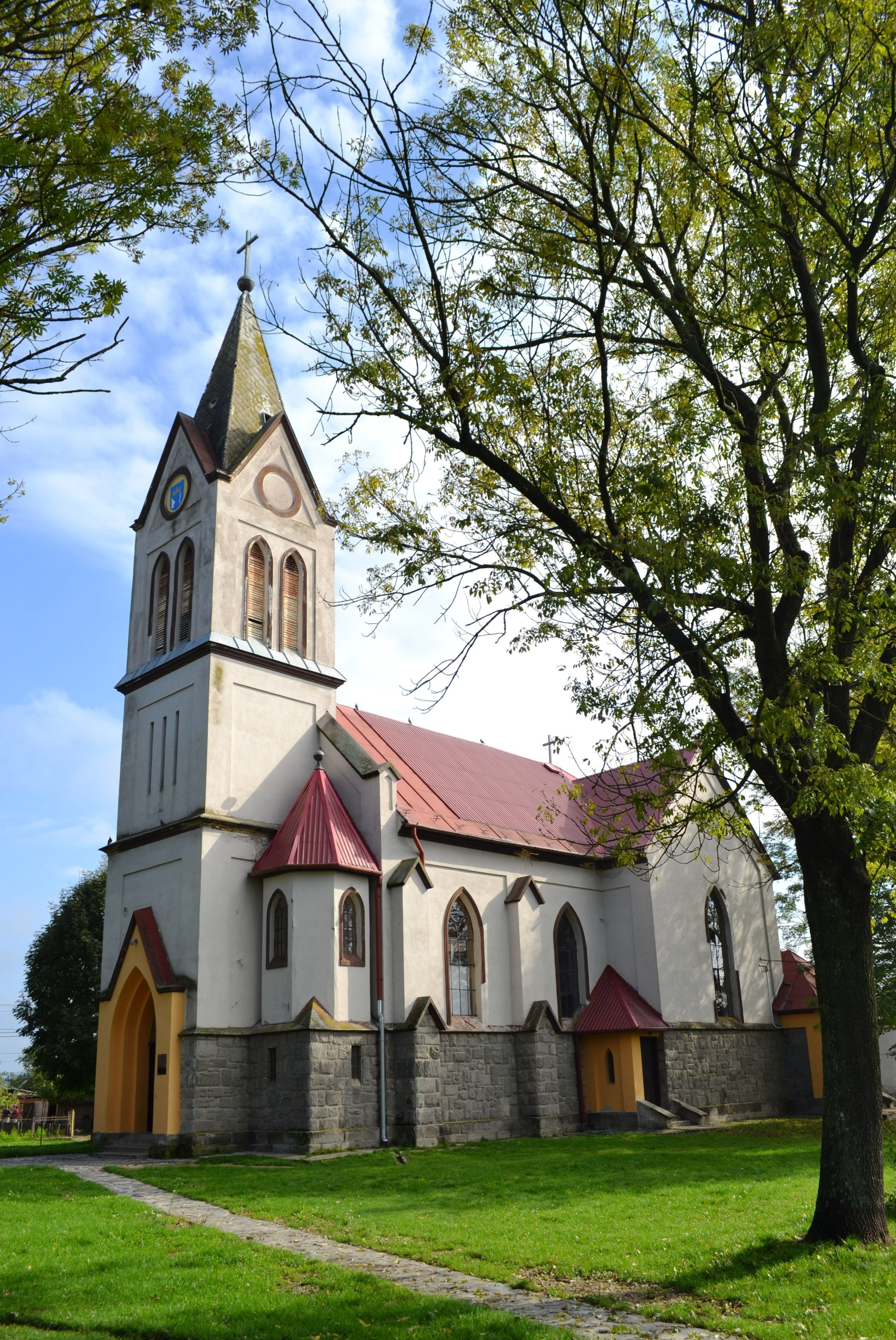 The Roman Catholic church in the village TrenčSlovenčina: Rímskokatolícky kostol v obci Trenč